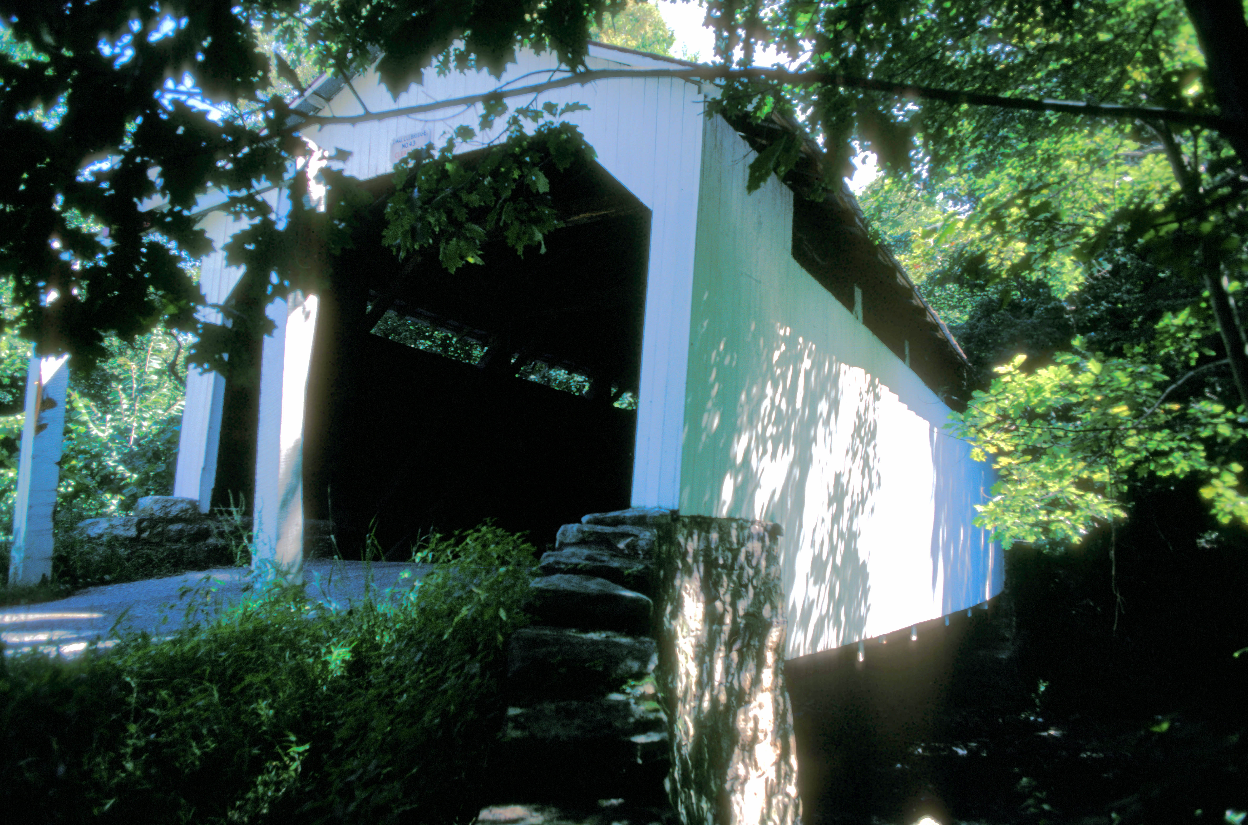 HENNINGER FARM/STROUB OVER WICONISCO CREEK; 60’ BURR & DOUBLE ARCH